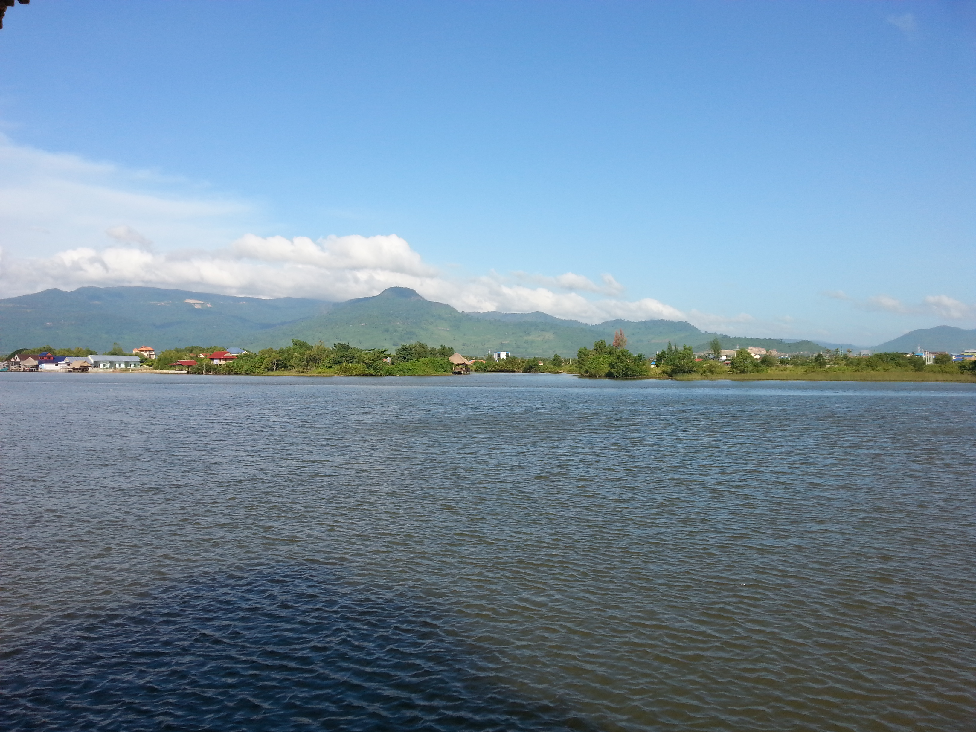 View of Bokor Mountain from Khum Traeuy Kaoh, Kampong Bay District, Kampot Province.